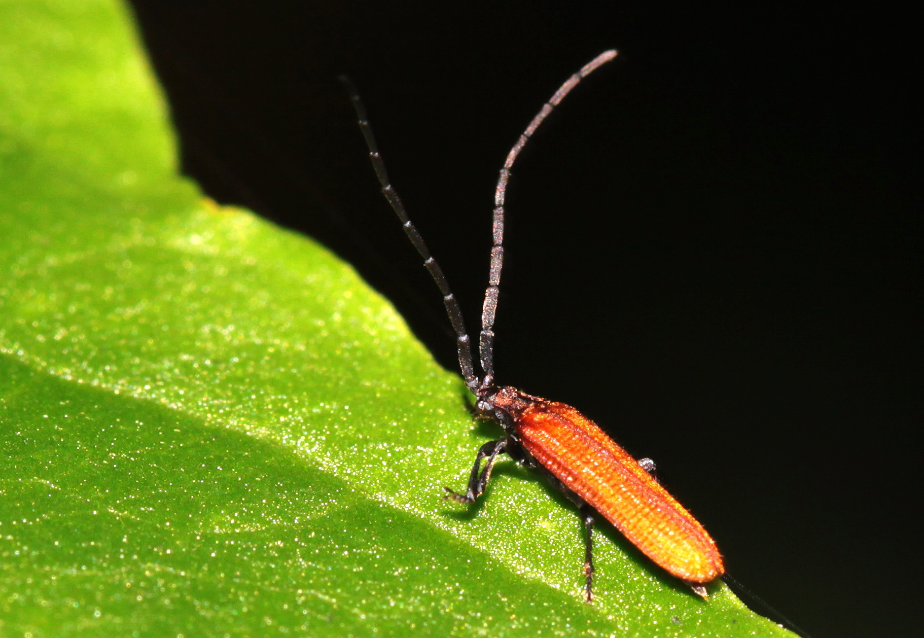 Phylum: Arthropoda Class: Insecta Order: Coleoptera Suborder: Polyphaga Infraorder: Elateriformia Superfamily: Elateroidea Family: Lycidae LAPORTE, 1836 (Net-winged beetles, Rotdeckenkäfer) Indonesia, W-Java, Puncak: Cibodas-Cibureum, ca. 1400-1700m asl.,17.06.2009 IMG_5707